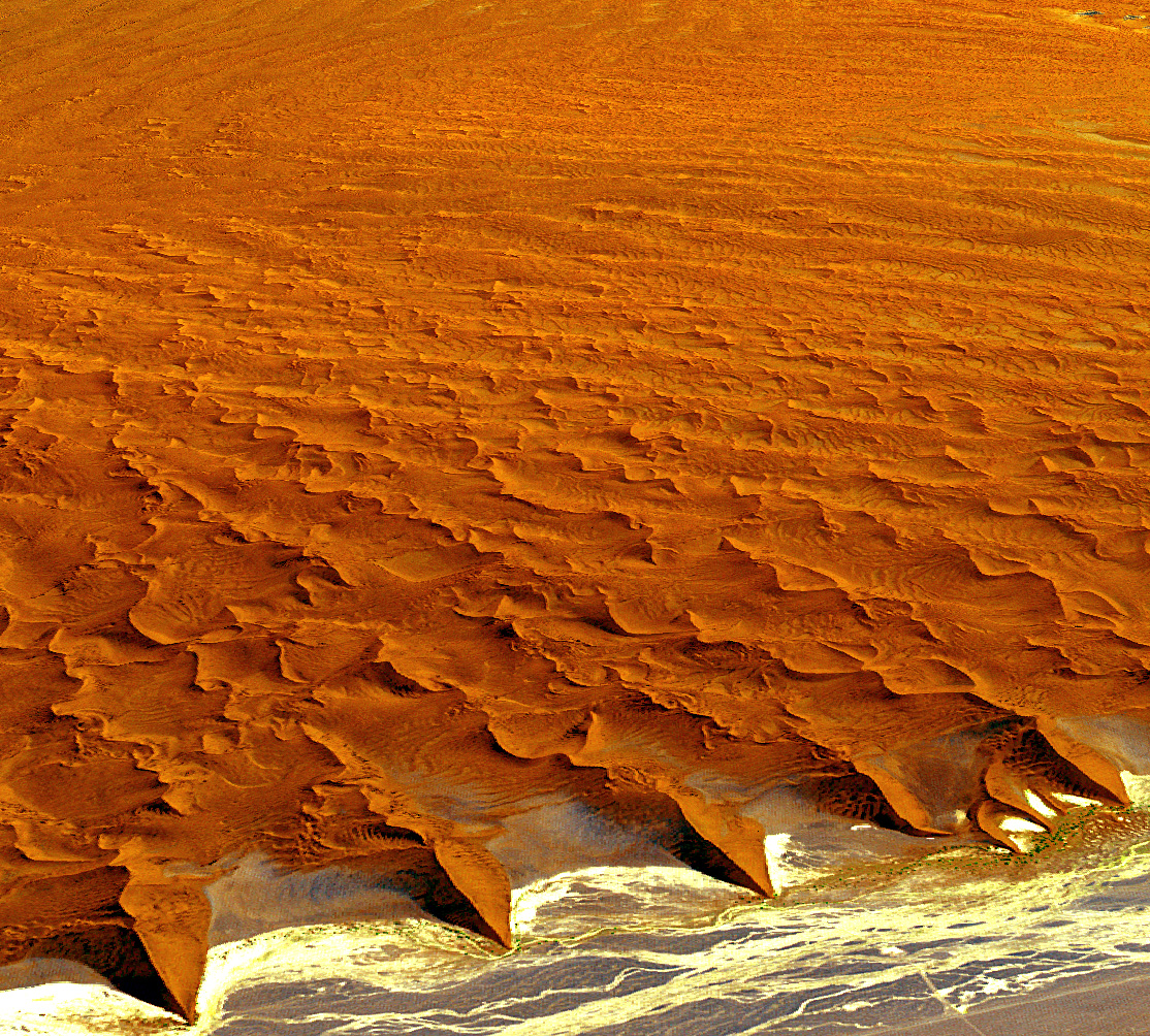 Naukluft National Park from space, Namibia – "High Dunes in the Namib Desert"